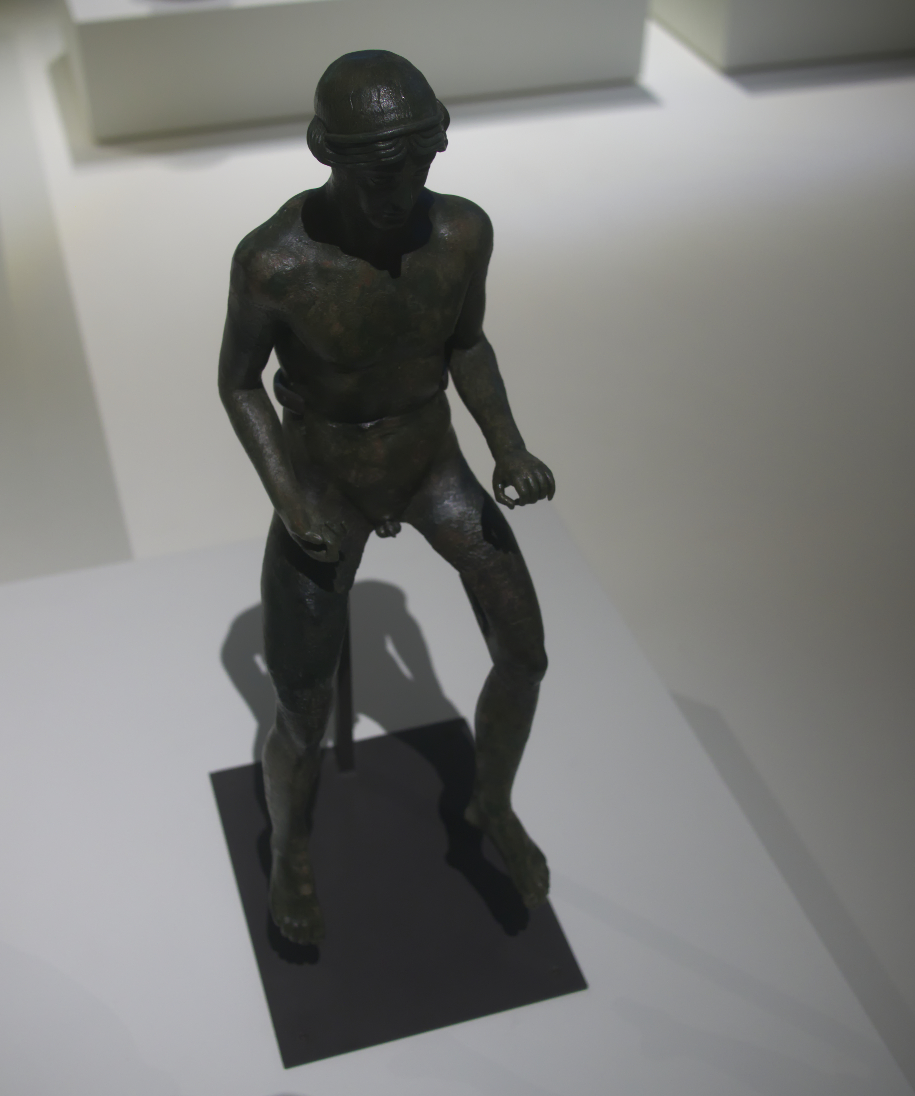 photograph taken during the temporary exposition that took place at the MuCEM of Marseille in august 2014.